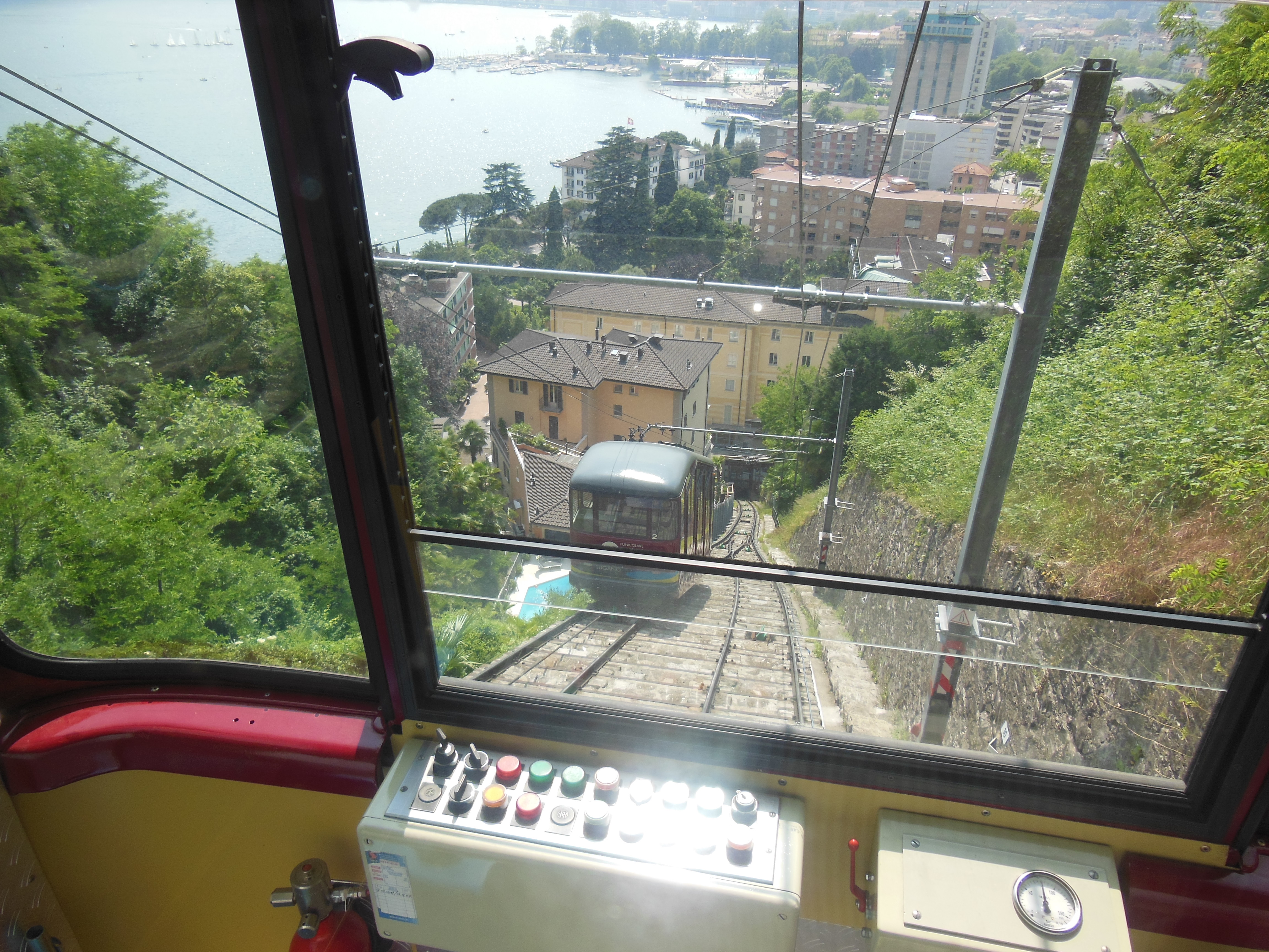 The passing loop of the lower section of the Monte Brè funicular. For more information, see Wikipedia article Monte Brè funicular.